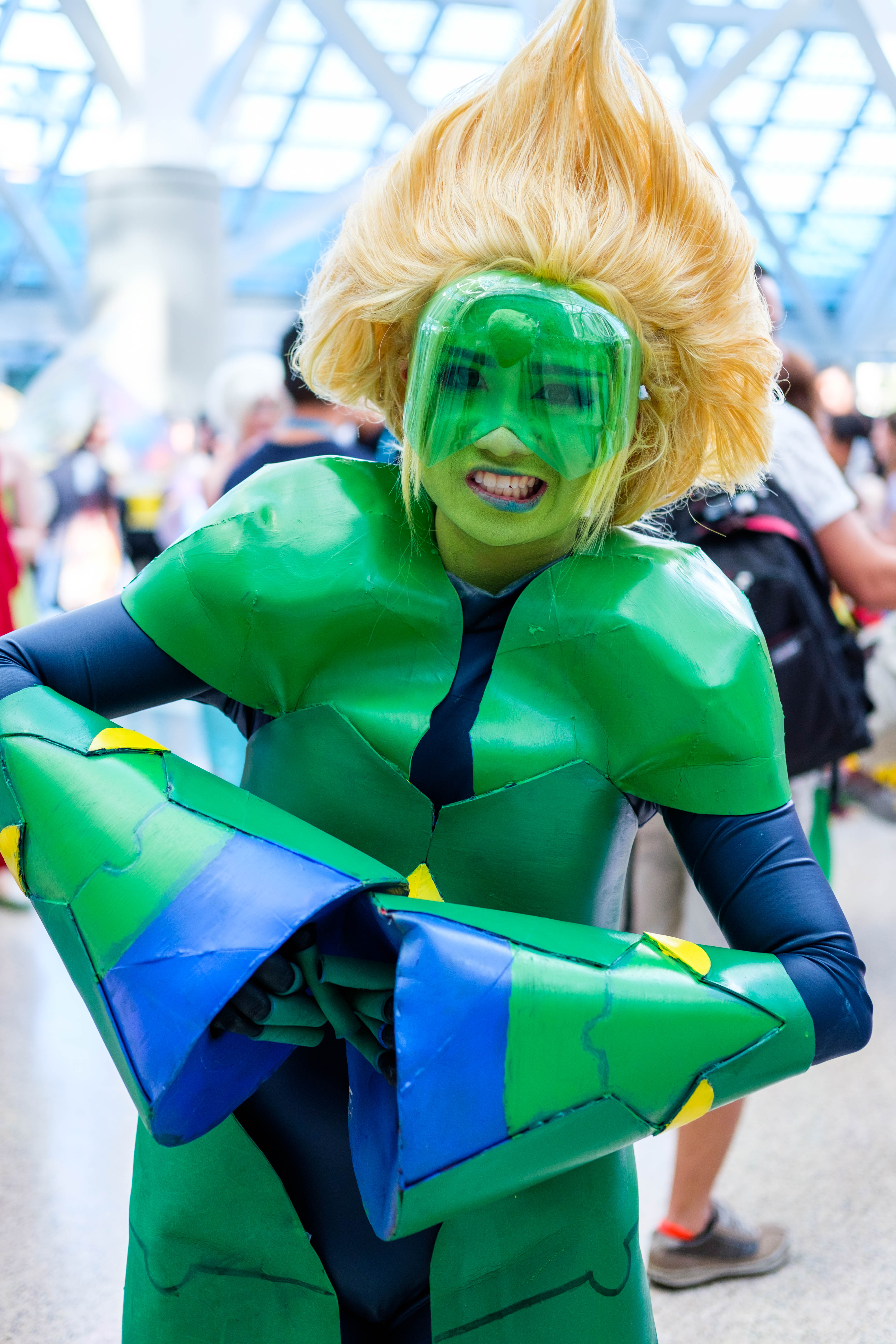 Cosplayer of Peridot from Steven Universe at Wondercon 2016